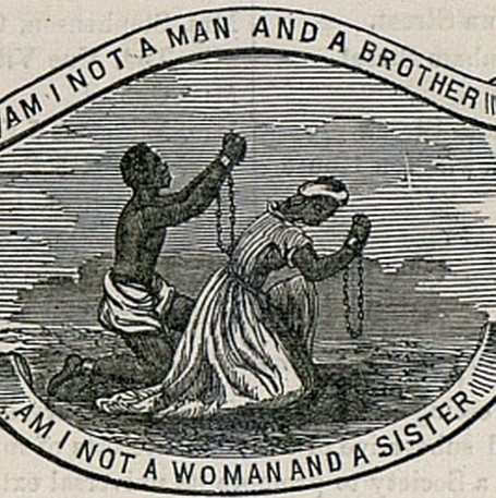 From the cover of the 1866 annual report of the Edinburgh Ladies Emancipation Society - cropped square for DYK